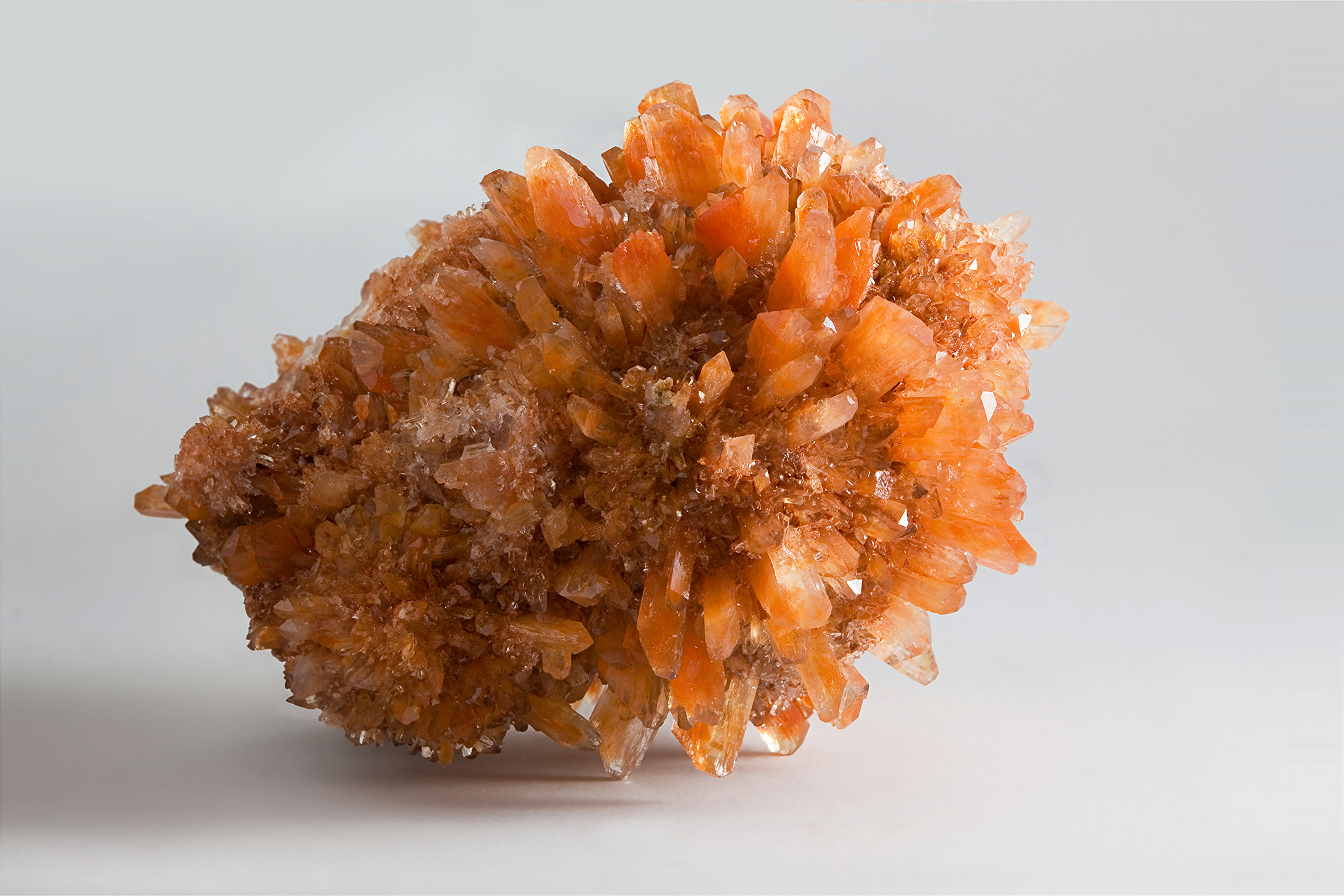 Creedite, Navidad Mine, Rodeo, Durango, Mexico. Size is about 10 × 10 × 7 cm.